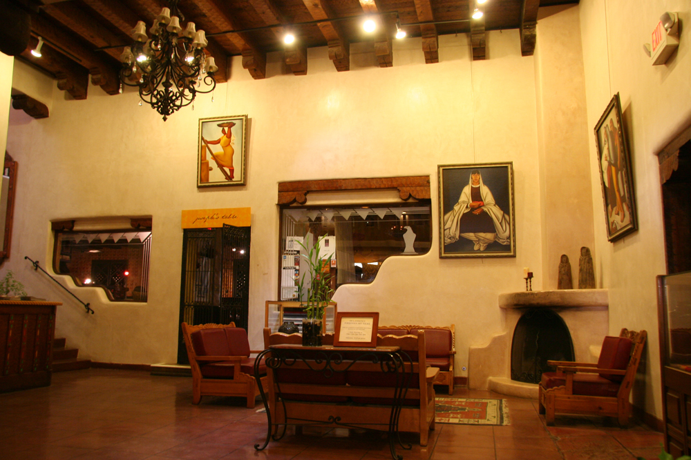 Hotel La Fonda Loby